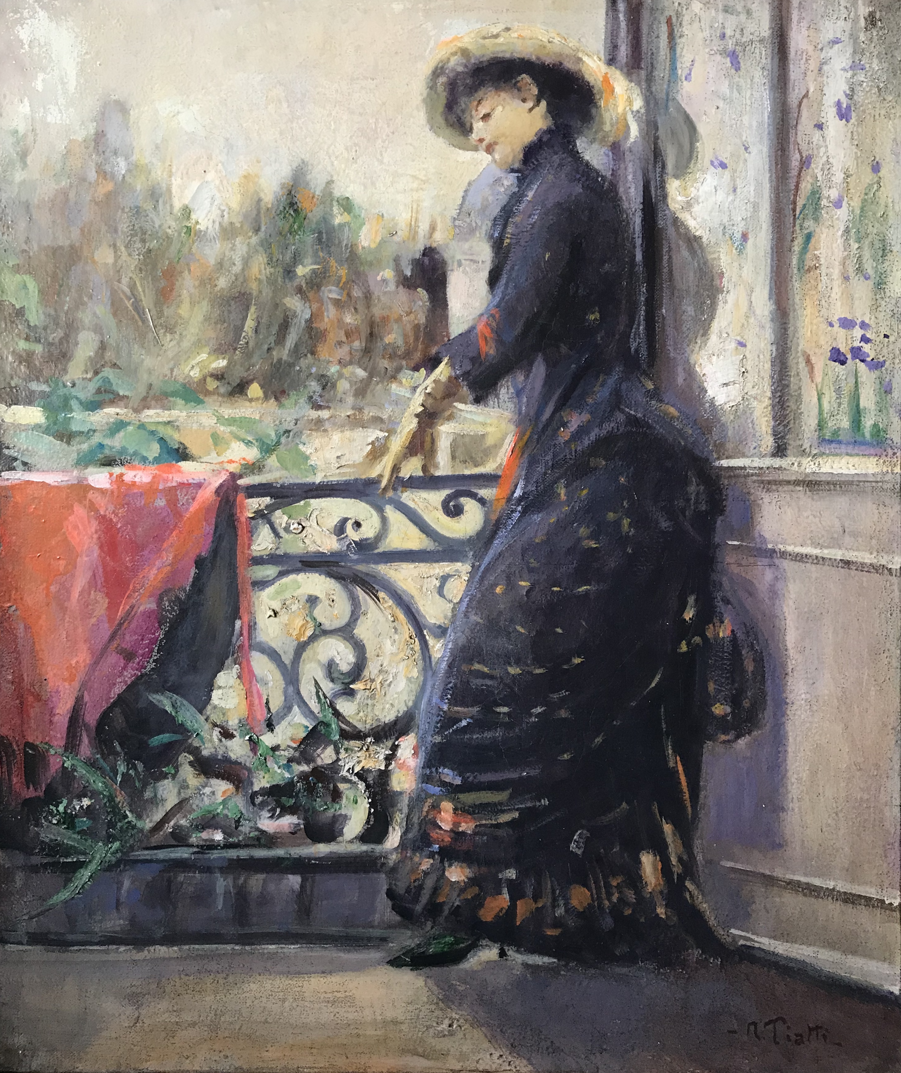 Antonio Piatti - Donna al balcone - oil on canvas 46x55 cm